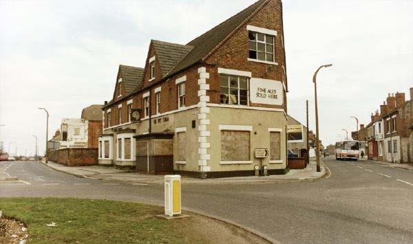 Shows the 'Vic' on Stanton Hill with windows boarded, probably around 1990